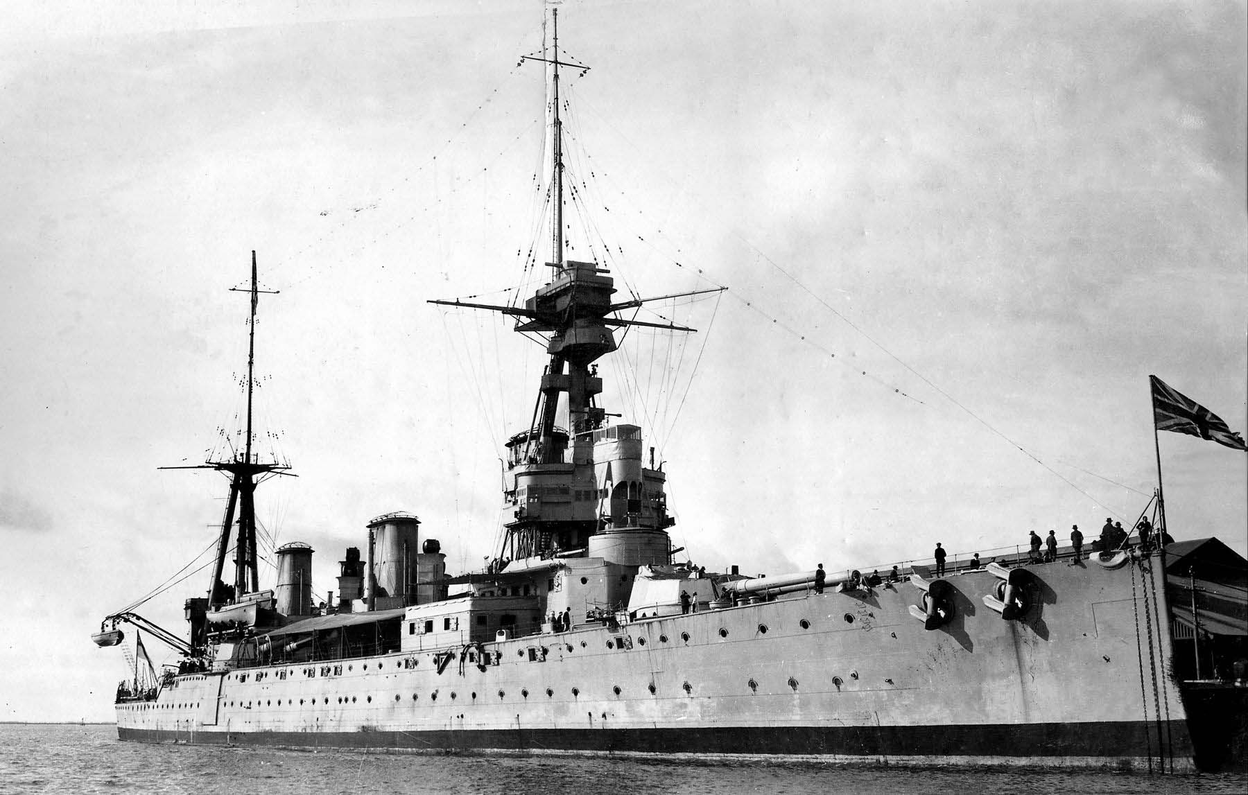 Indefatigable class battle cruiser HMS New Zealand berthed at Outer Harbour, South Australia. HMS New Zealand, carrying Lord and Lady Jellicoe, arrived at Outer Harbor, Port Adelaide, on 25 May 1919, having sailed from Fremantle via Port Lincoln. HMS New Zealand sailed for Melbourne in the early hours of 28 May 1919. PRG 280/1/24/45 Visit the State Library of South Australia to view more photos of South Australia